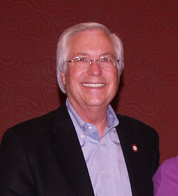 Photo of the Principal Chief of the Cherokee Nation taken at the Cherokee Leaders Conference. Attribution to: Phil Konstantin